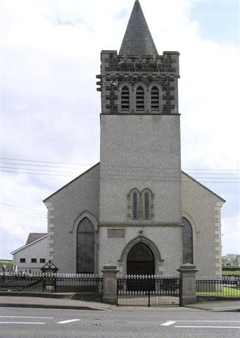 Ballyrashane Presbyterian Church. It is halfway between Coleraine and Ballybogey